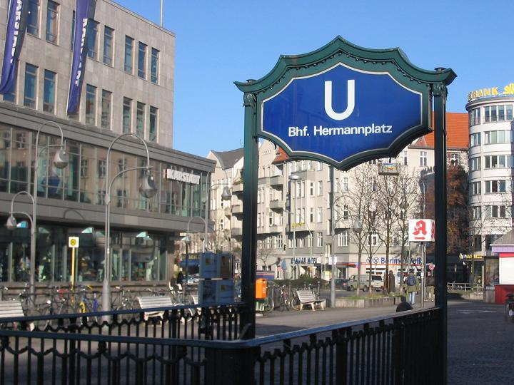 Hermannplace in Berlin-Neukölln, border to Berlin-Kreuzberg. Metro station Hermannplace.